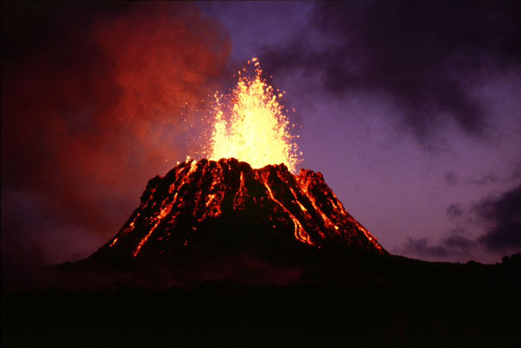 Pu'u 'O'o, a Volcanic cone on Kilauea, Hawaii. It is very similar in appearance to the Scientology volcano symbol, which originated in the Xenu story. – Original caption: "View at dusk of the young Pu'u 'O'o cinder-and-spatter cone, with fountain approximately 40 m high, during episode 5."